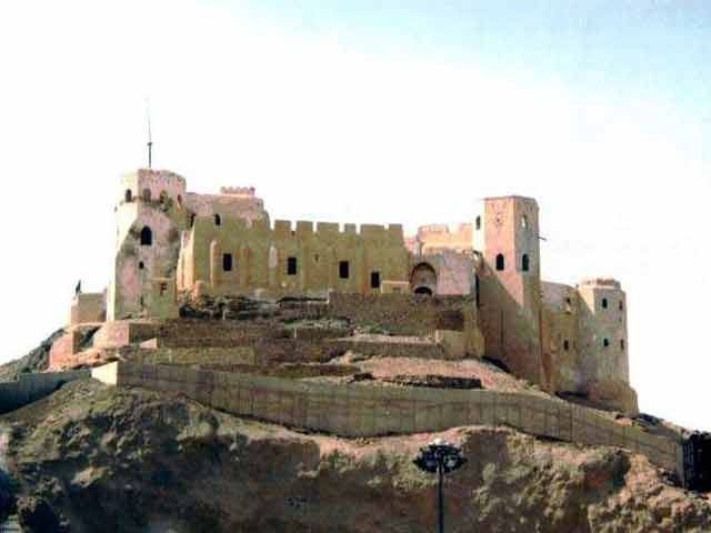 Destroyed Ottoman Castle Ecyad